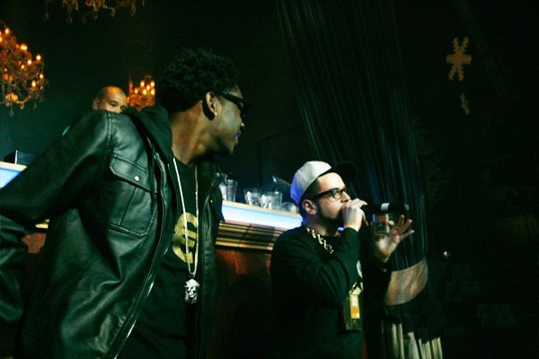 Wizard Sleeve Performing Live on the 25th of march 2010 at the indigO2 inside The O2 arena (London) on their UK tour